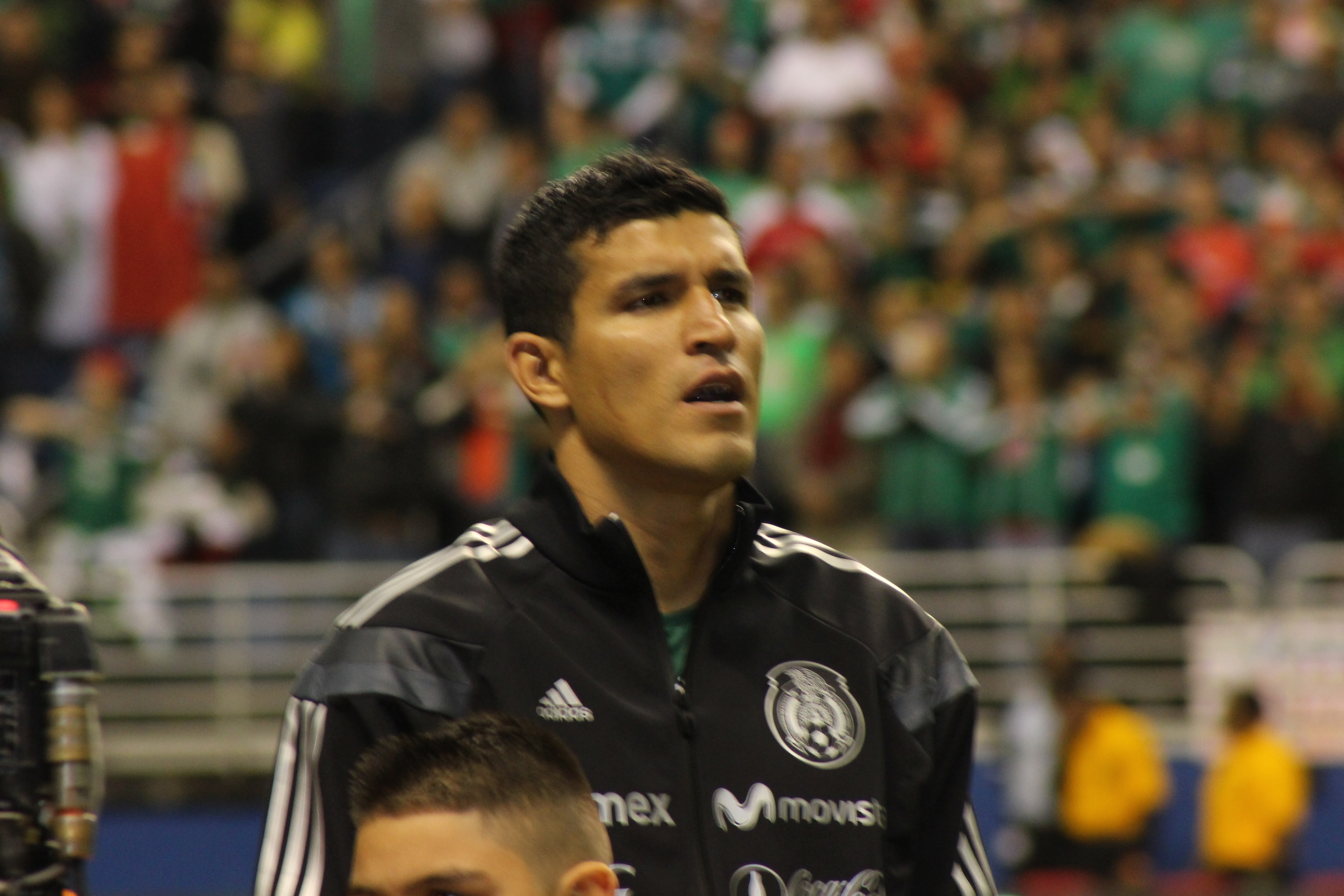 Francisco Javier Rodriguez during the playing of Mexico’s national anthem prior to Mexico’s 4-0 win over South Korea in an international friendly at the Alamodome in San Antonio, Texas on Wednesday, Jan. 29, 2014. The match served as a tune up for both teams leading up to their participation in the 2014 FIFA World Cup.